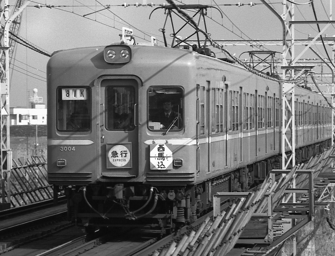 Keisei 3004 on the bridge over Arakawa